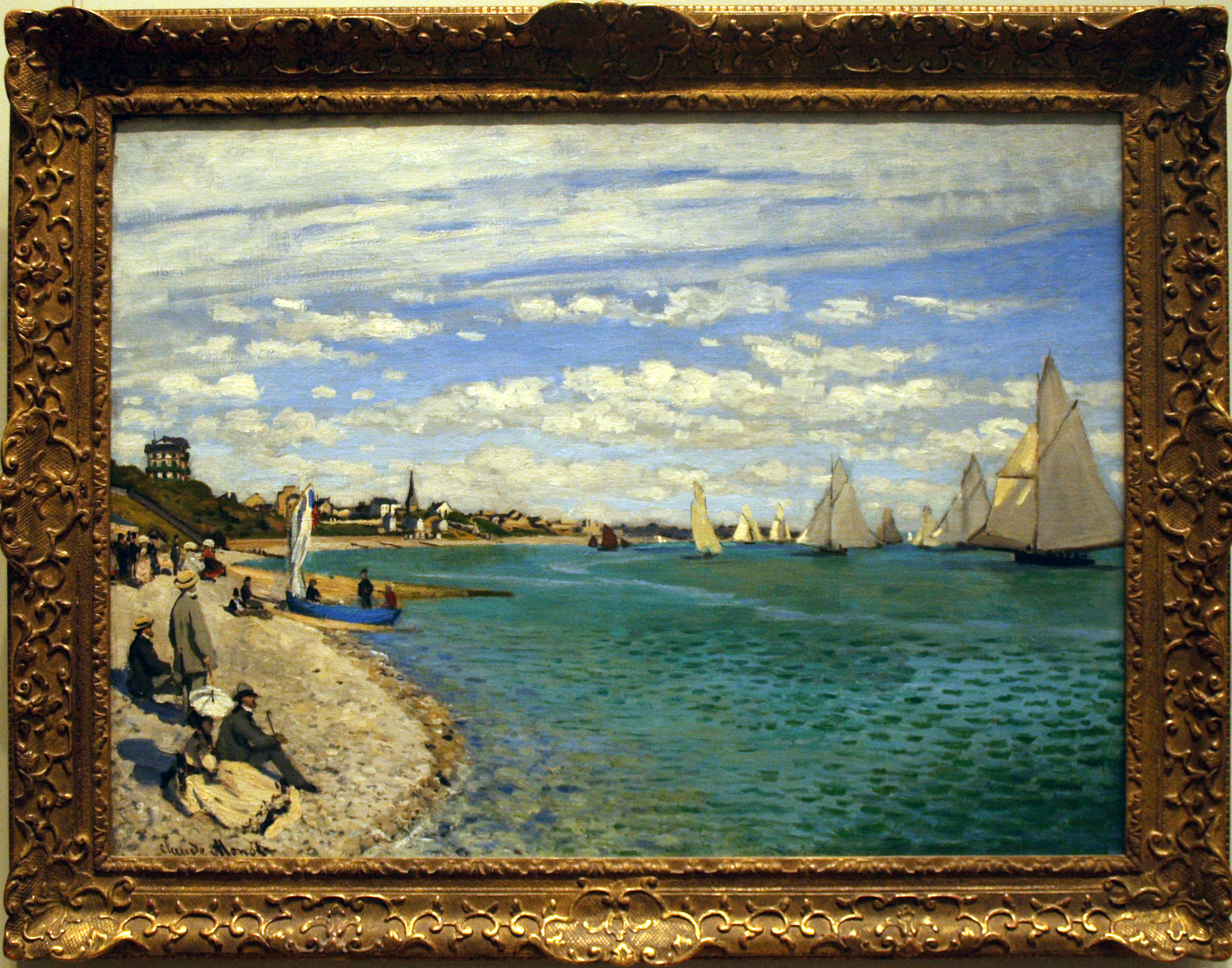 Painting of Monet in the MET, NY